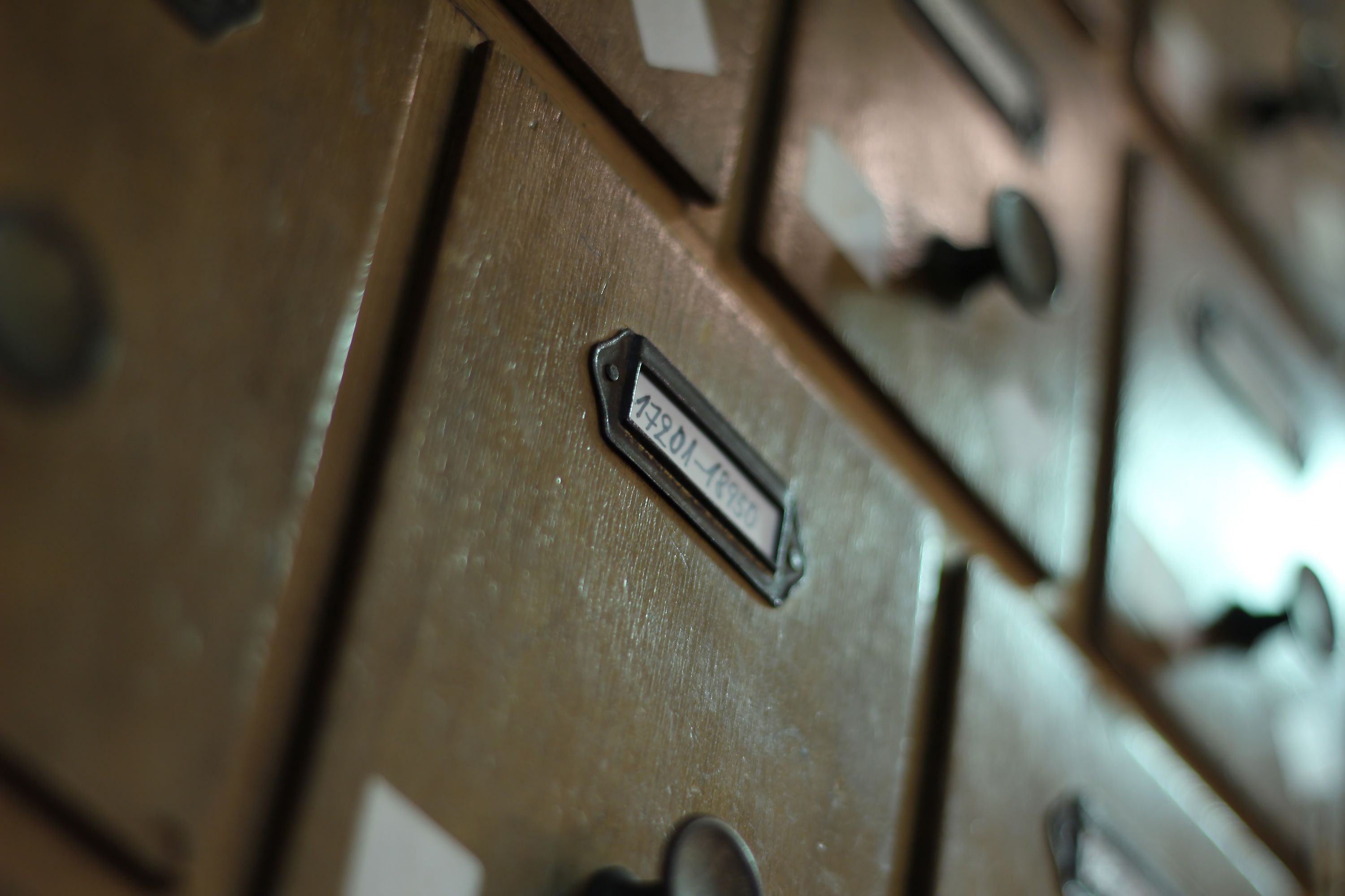 Photo Prior, archive of photographer Rudi Weissenstein in Tel Aviv